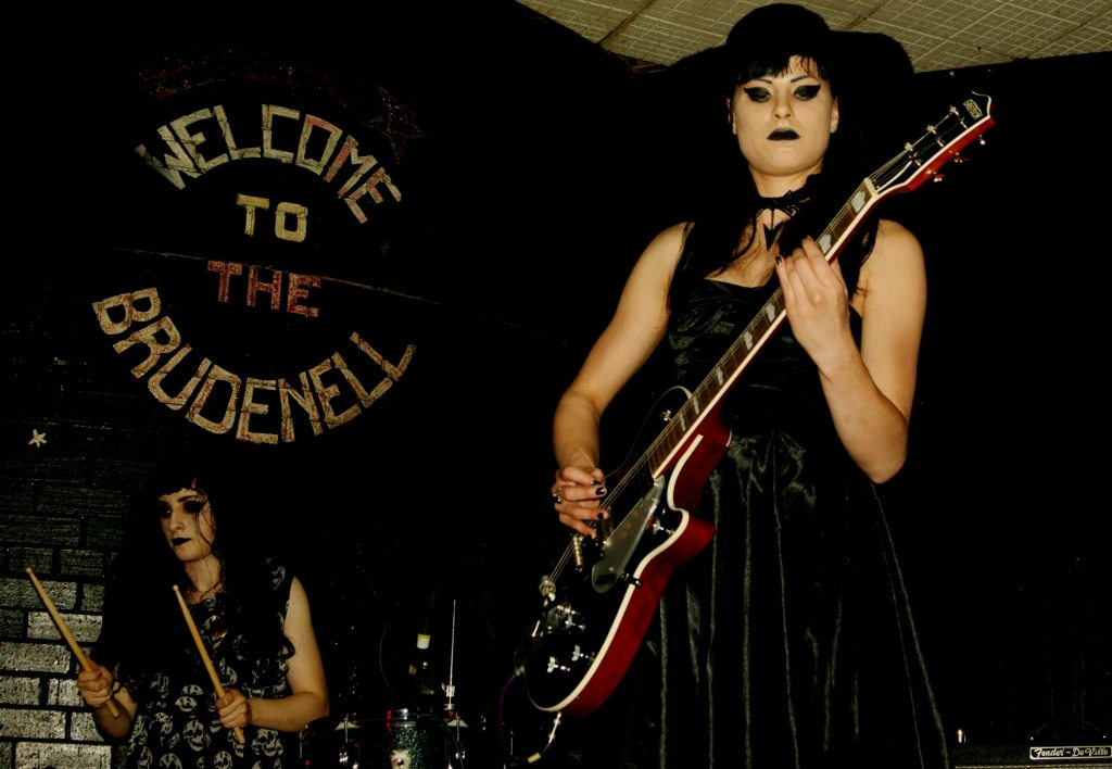 The Black Belles performing at the Brudenell Social Club, Leeds, on Wednesday the 2nd of May 2012